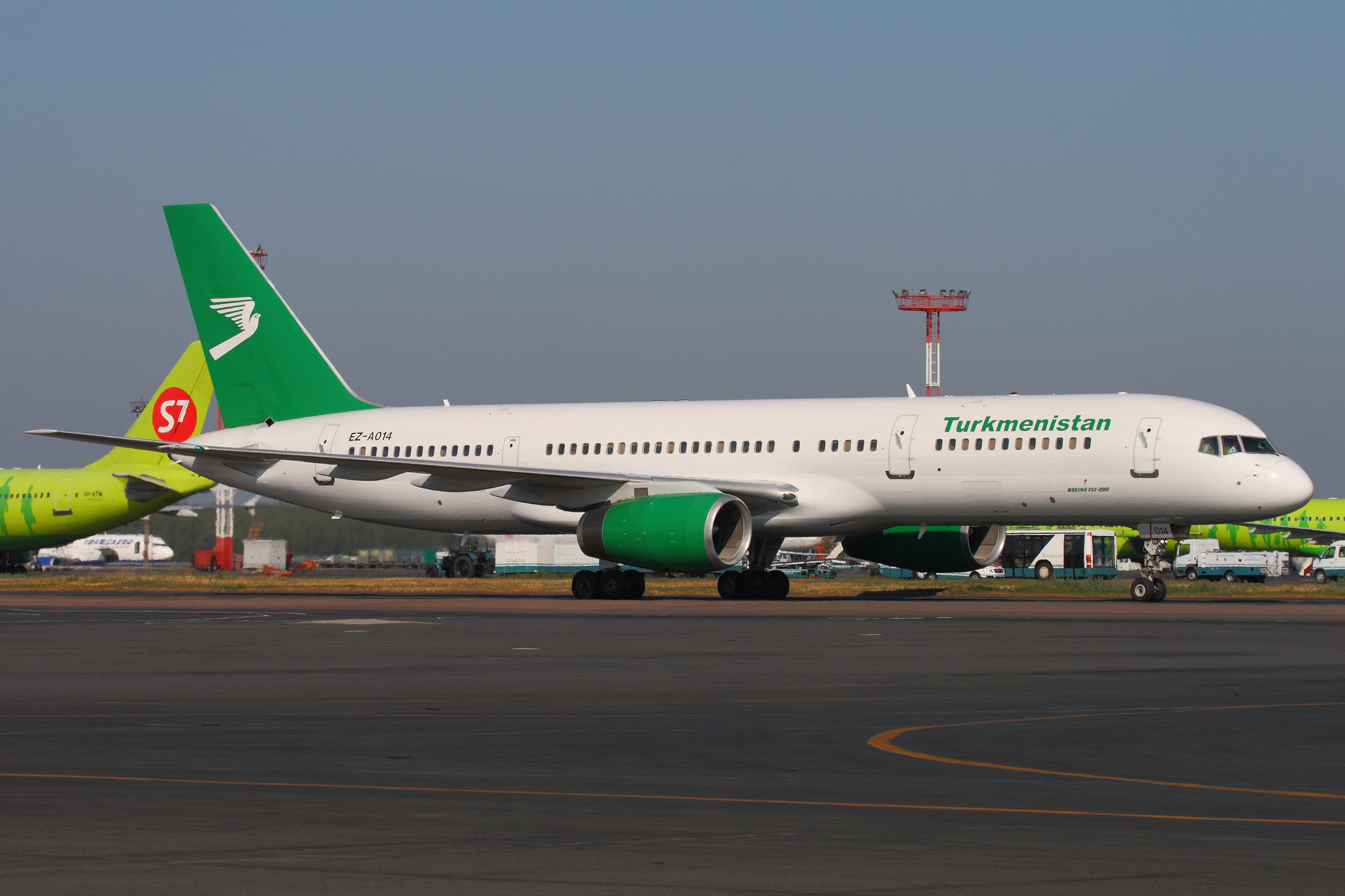 Turkmenistan Airlines Boeing 757 at Moscow-Domodedovo international airport.